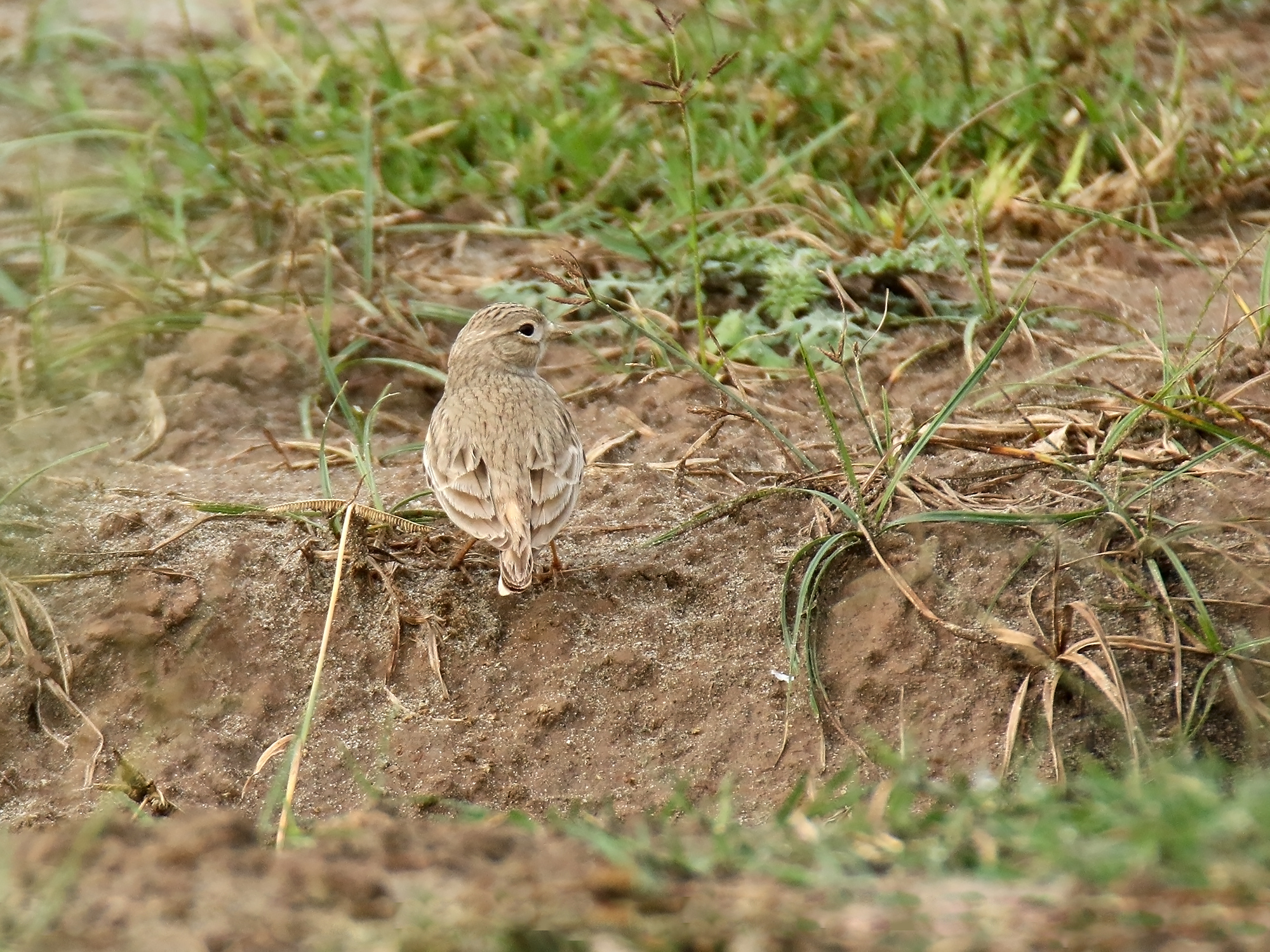 Sand Lark (Calandrella raytal) captured at Marala, Sialkot, Punjab, Pakistan with Canon EOS 7D Mark II